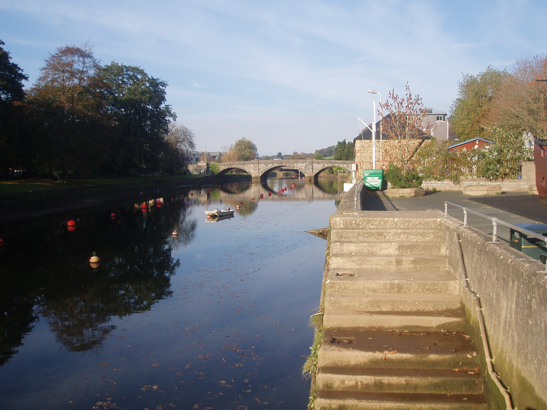 Shows the River Dart at Totnes in Devon looking upstream to the bridges